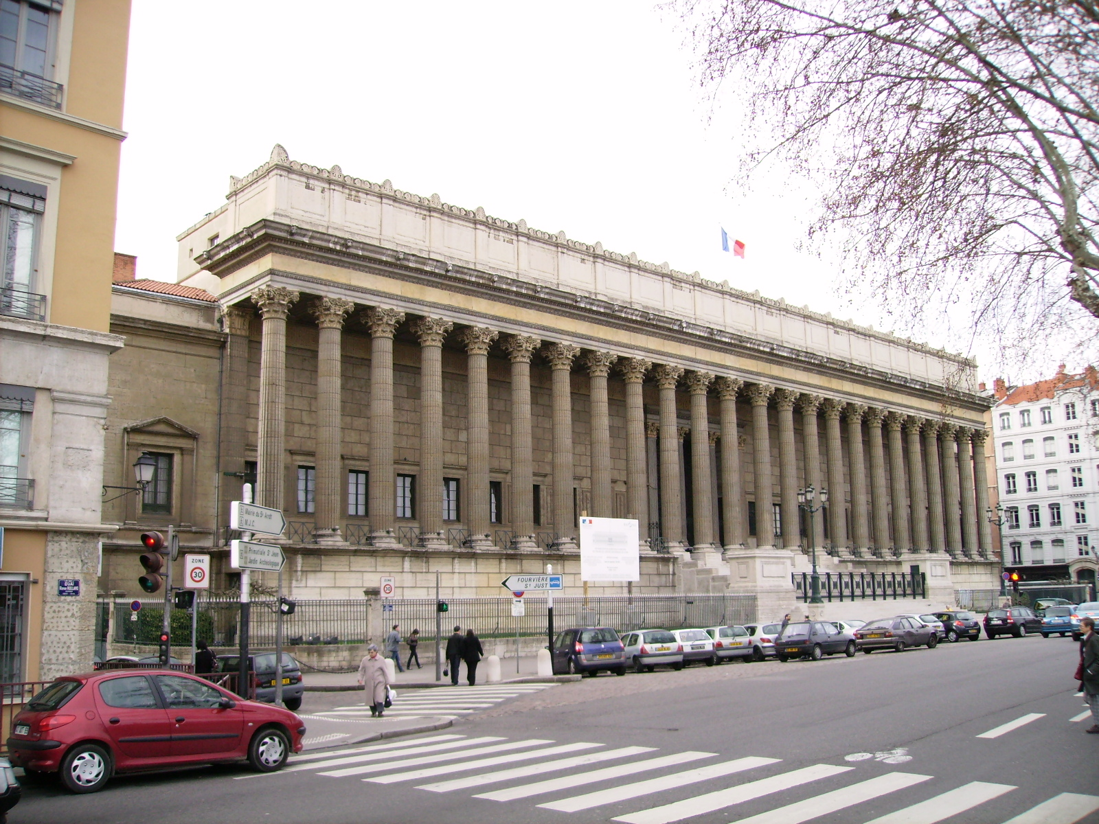 Historical law courts of Lyon